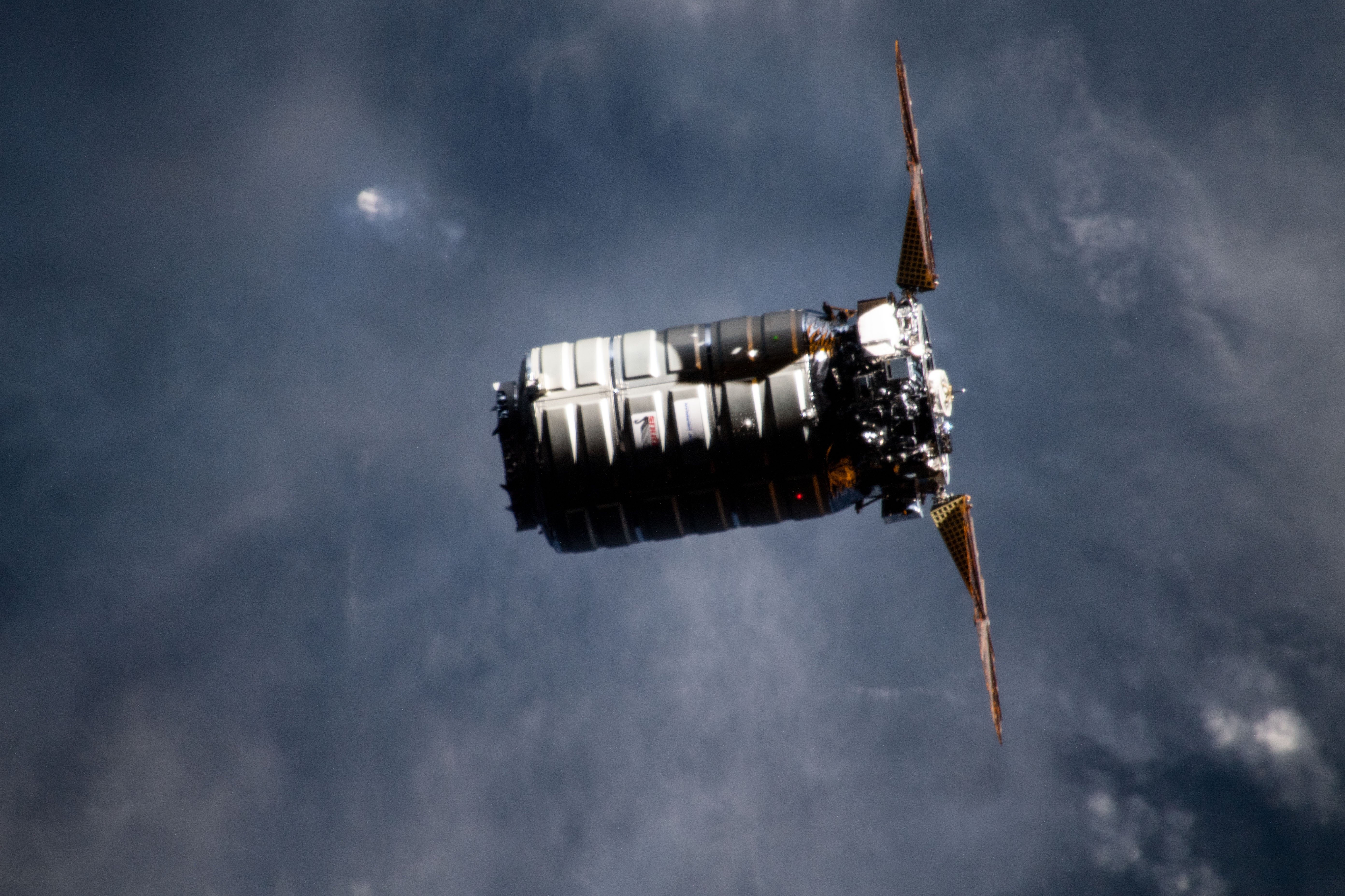 Northrop Grumman's Cygnus space freighter approaches the International Space Station 254 miles above the Philippines.